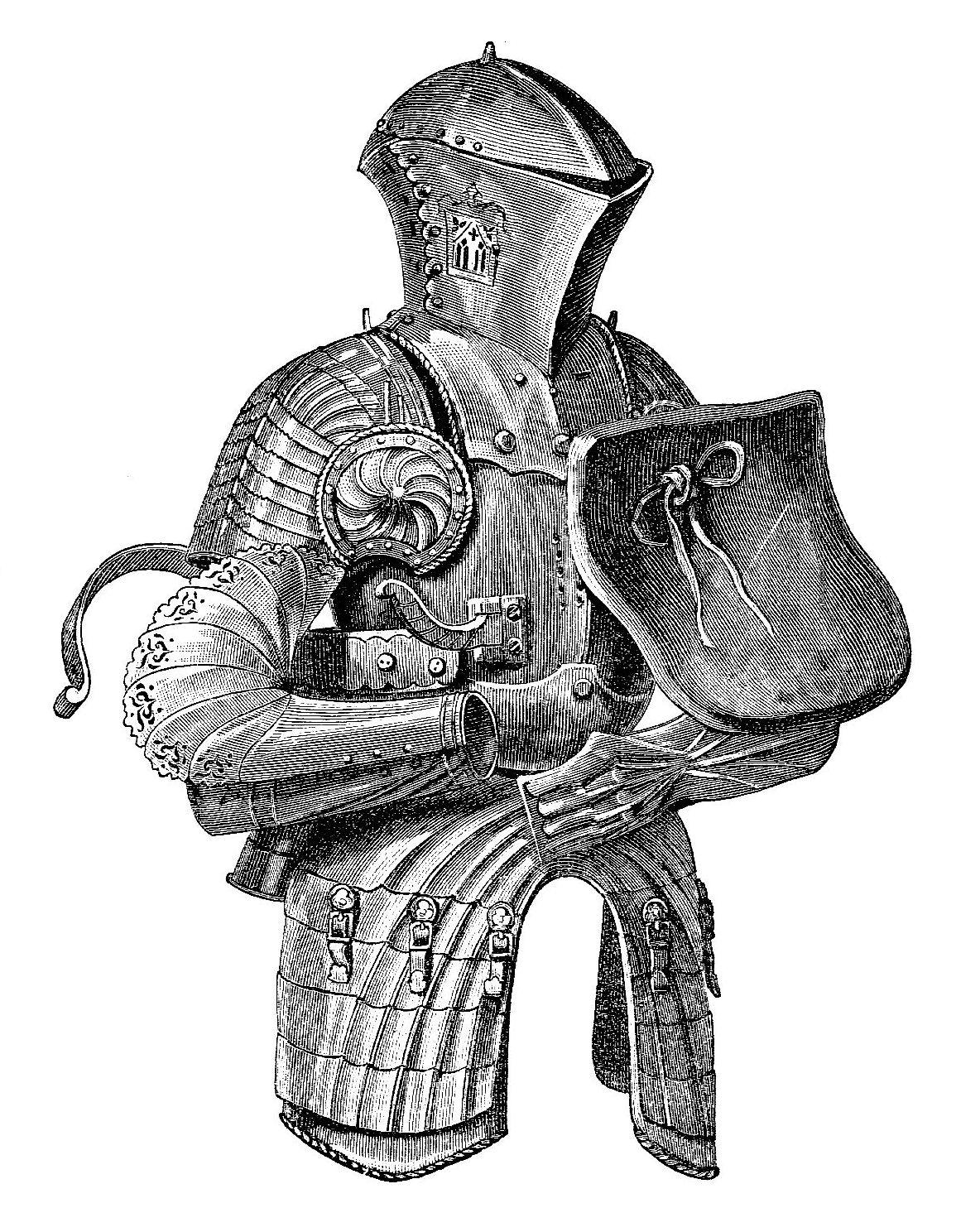 German suit of armour for jousts. Here: drawing of the armour of the German Emperor Maximilian I. (Artillery-Museum Vienna)